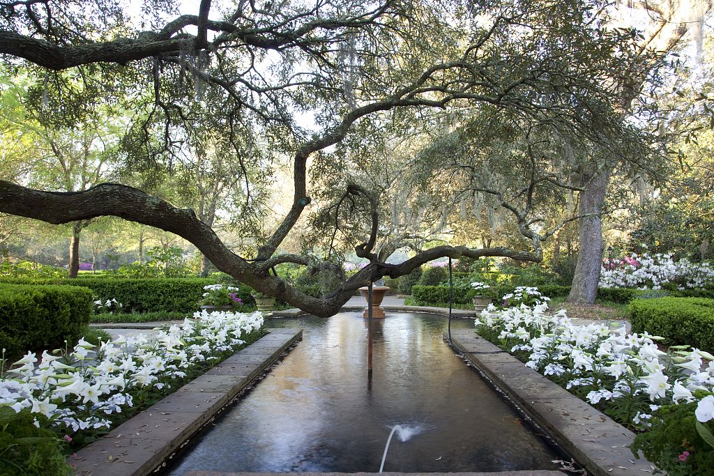 Bellingrath Gardens and Home, the creation of Mr. and Mrs. Walter Bellingrath in Theodore, Alabama